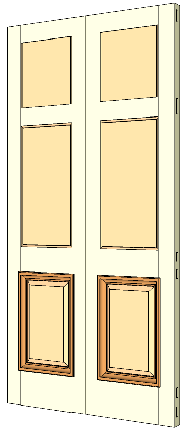 Same double margin door for an article on same